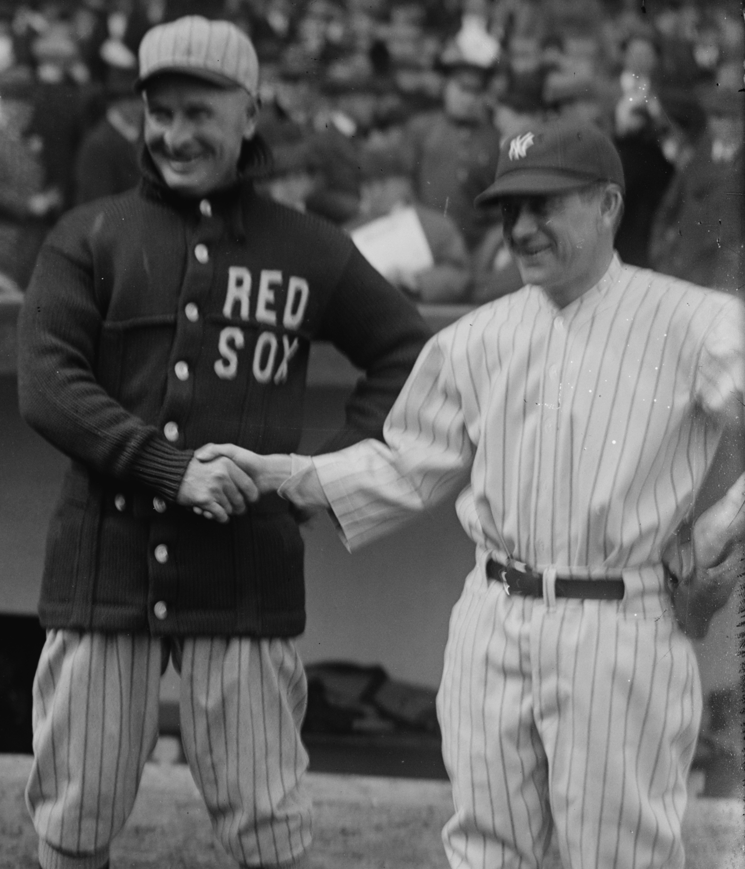 Frank Chance & Miller Huggins, managers of the Boston Red Sox & NY Yanks shaking hands before start of 1923 opening game at Yankee Stadium, NY, 4/18/23